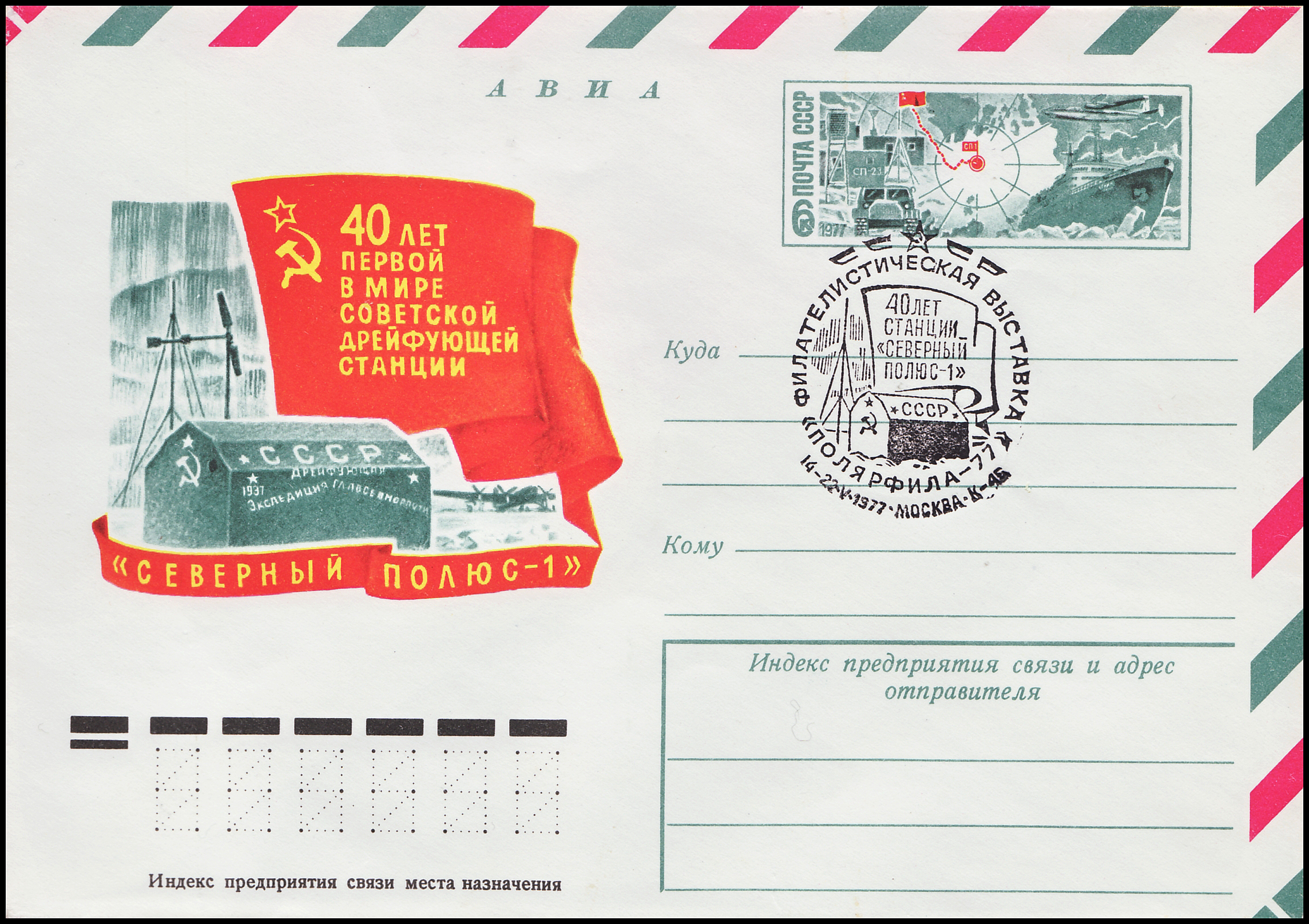 USSR, 1977. Labeled Envelope with commemorative stamp. "The 40th anniversary of the first Soviet drifting station "North Pole-1" (Catalogue "Standard -Collection" №31). Stamp: The scheme station drift in the Arctic Ocean; modern equipment drifting stations; icebreaker. Illustration: The state flag of the USSR over tent station "North Pole-1", a commemorative text. Painter Y. Kosorukov. Special cancellations: "Philatelic Exhibition "Polarphila-77 ". 40th anniversary of the station "North Pole-1" 14-22.05.1977, Moscow, post office K-45.